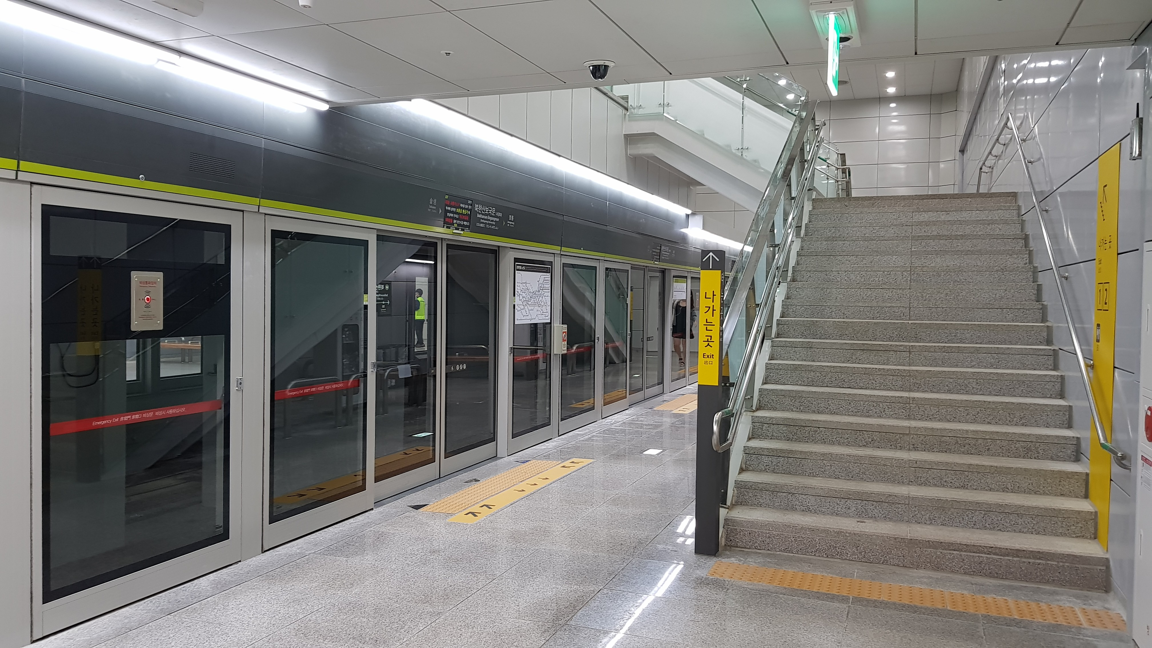 A scenery of Ui LRT (Seoul) Bukhansan Bogungmun Station Platform